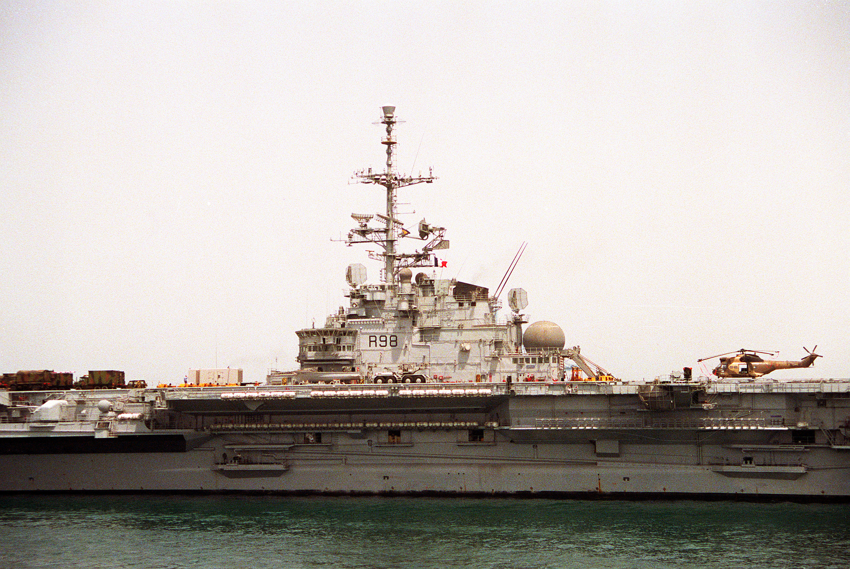 The French aircraft carrier FS Clemenceau (R-98) is moored at port during Operation Desert Shield.